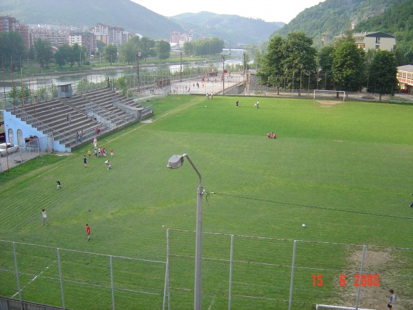 fudbalski stadion u Malom Zvorniku